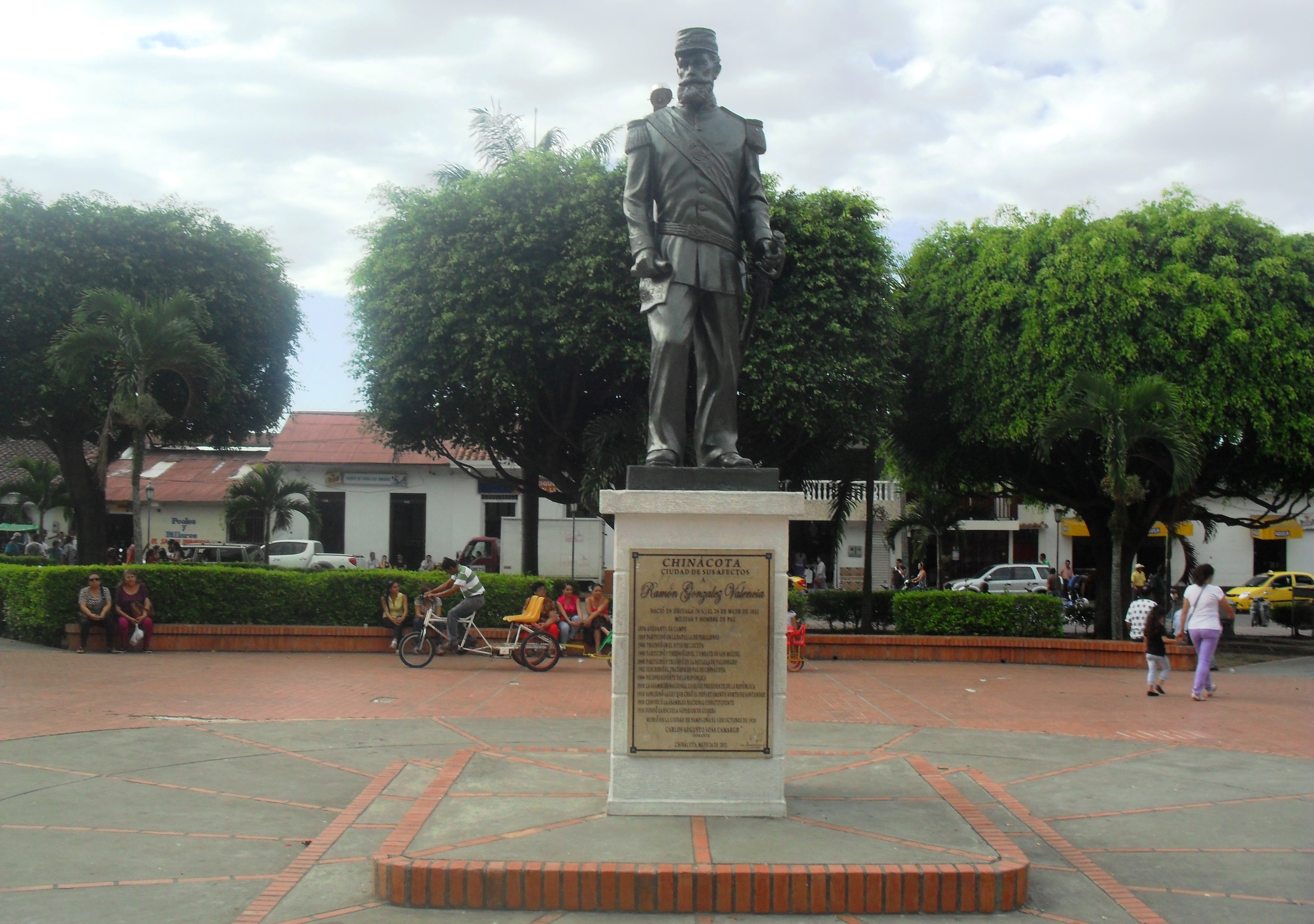 Monument to Ramón González Valencia in Chinánota,North Santander,Colombia.